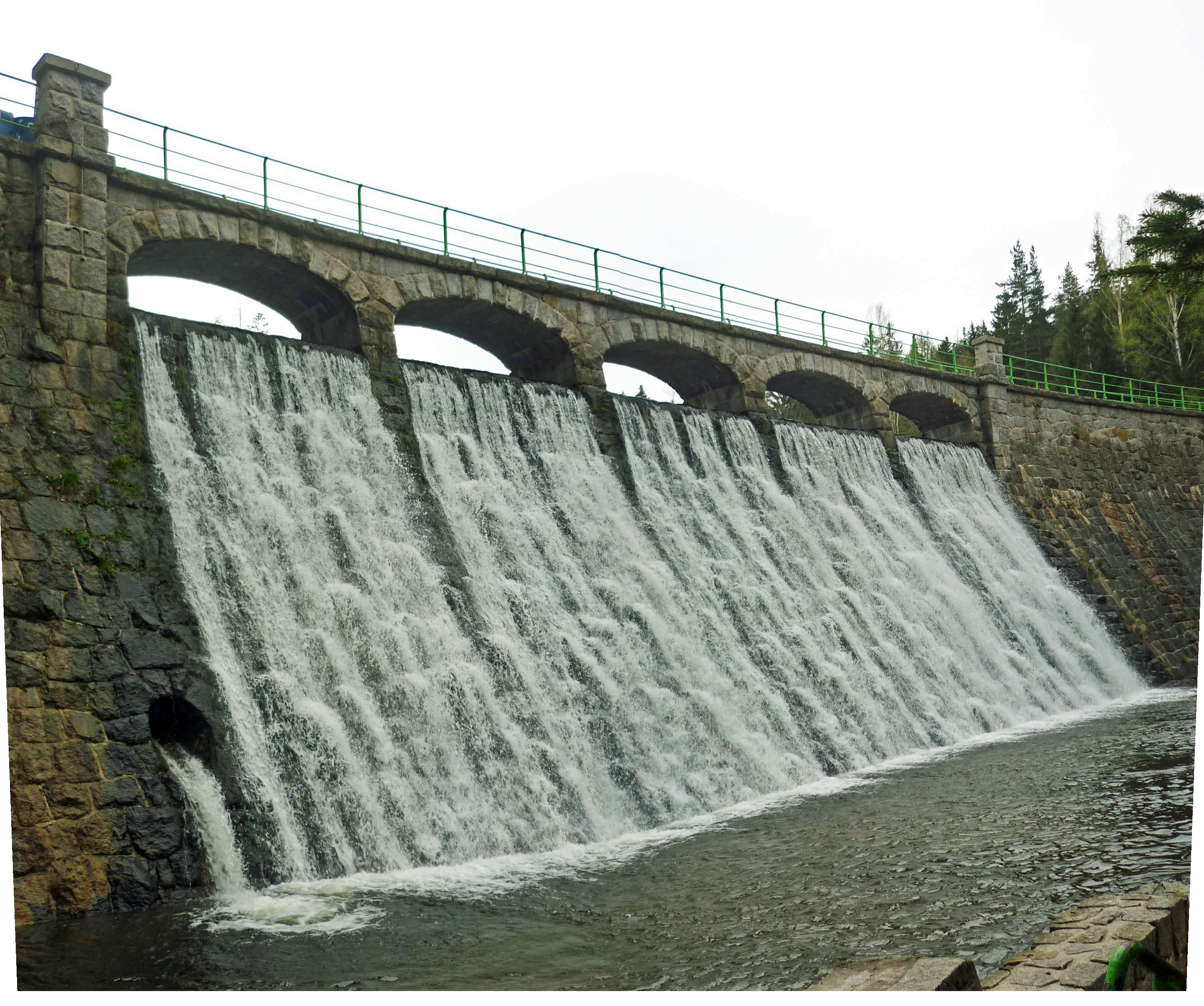 Łomnica Dam, Karpacz